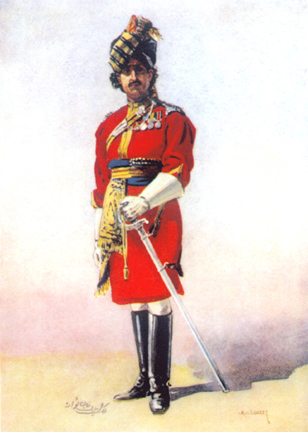 The Hon. Malik Umar Hayat Khan Tiwana as an Honorary Lieutenant of 18th King George's Own Lancers. Watercolour by Major AC Lovett, 1910. Published in MacMunn & Lovett, Armies of India, 1911.